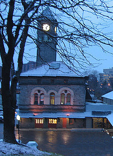 View of the old Baltimore and Ohio Railroad's former Mount Royal Station in 2007, originally built in 1896 for the B&O's Royal Blue Line passenger service between Washington, D.C. and New York City. The building is now part of the Maryland Institute College of Art.